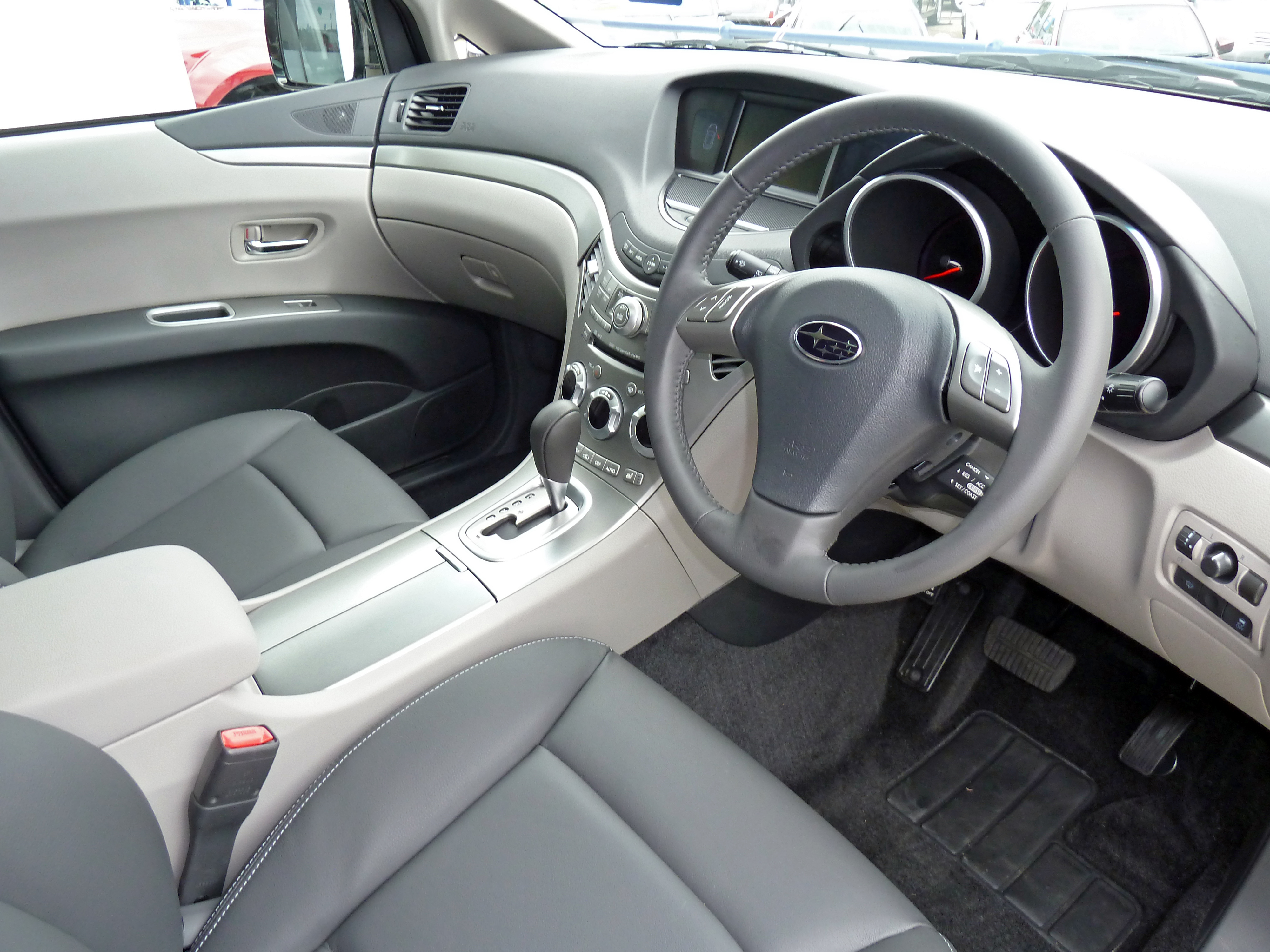 2010 Subaru Tribeca (B9 MY10) Premium Pack wagon. Photographed at Suttons Subaru, Chullora, New South Wales, Australia.